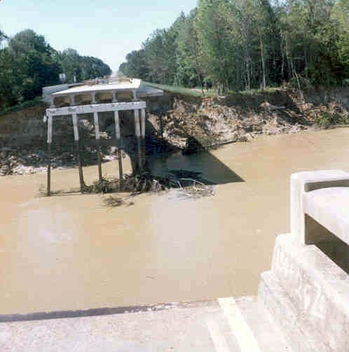 Mississippi Highway 33 bridge failure near USGS no. 07292500 station no. 07292500 just north of Rosetta, caused by the April 1974 flood on the Homochitto River.